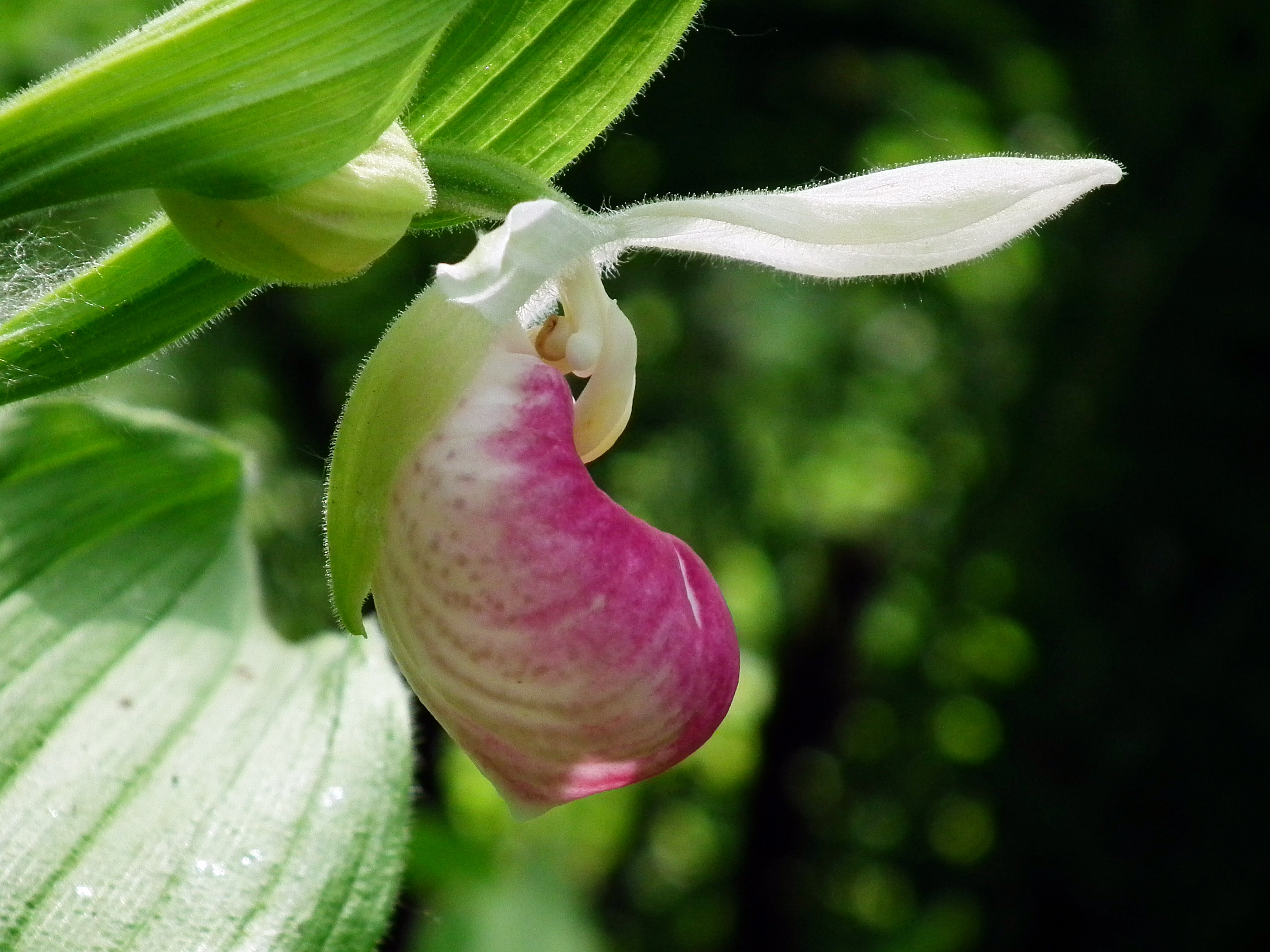 Showy Lady's-slipper (Cypripedium reginae) at the Minnesota Landscape Arboretum, Chaska, Minnesota, USA.